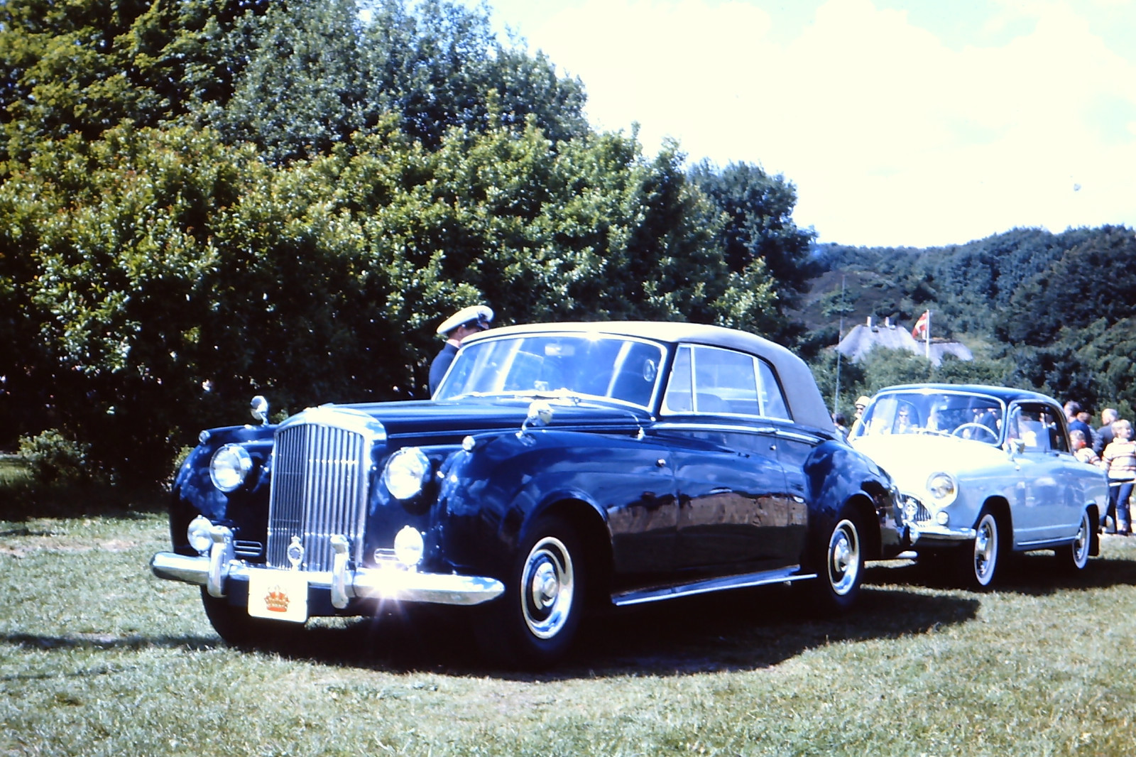 Bentley S2 (#B206BS) H.J. Mulliner drophead coupé, delivered new to H.M. the King of Denmark.